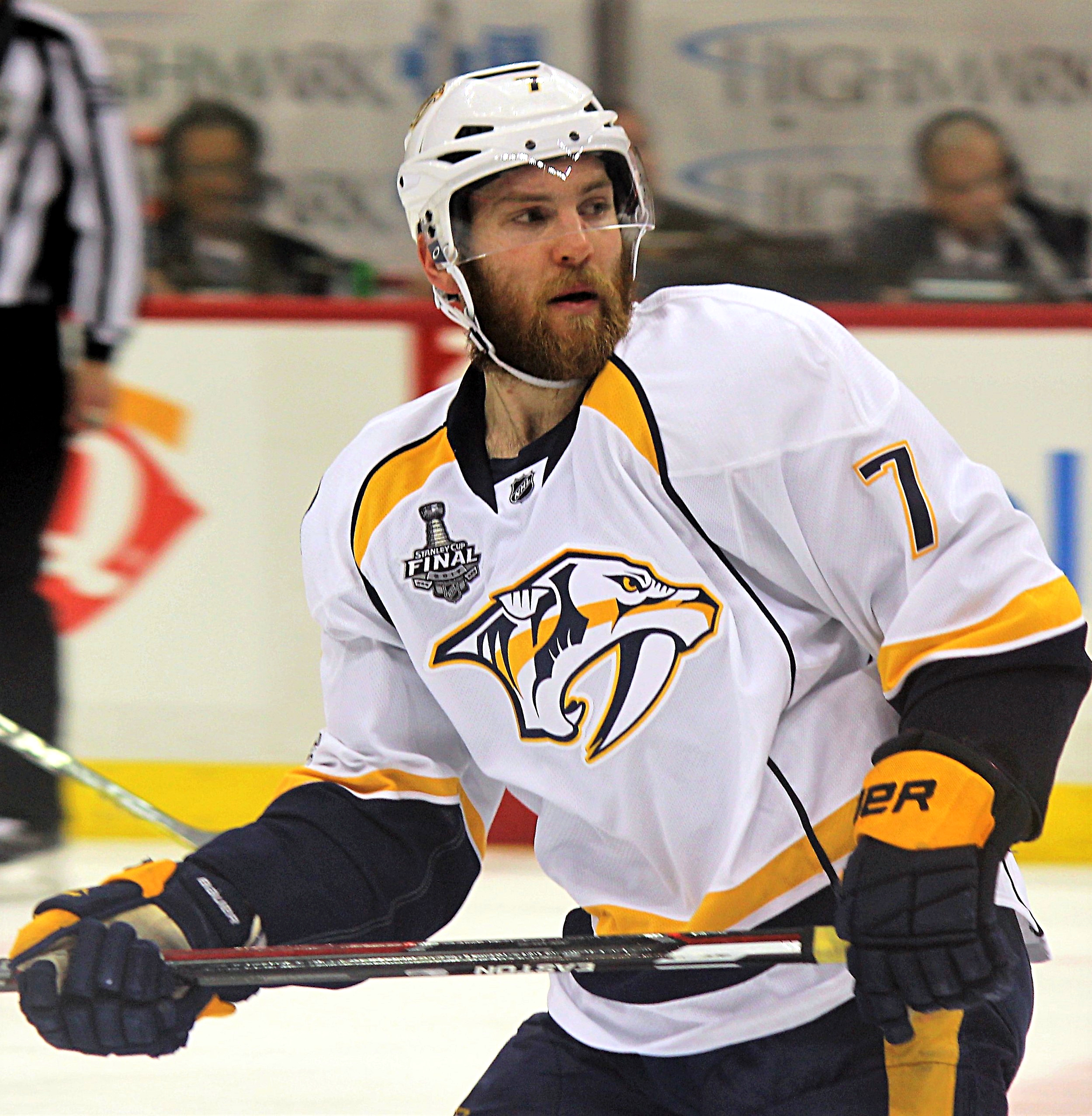 Nashville Predators defenseman Yannick Weber during game 5 of the Stanley Cup Final against the Pittsburgh Penguins, June 8, 2017, at PPG Paints Arena in Pittsburgh, PA.